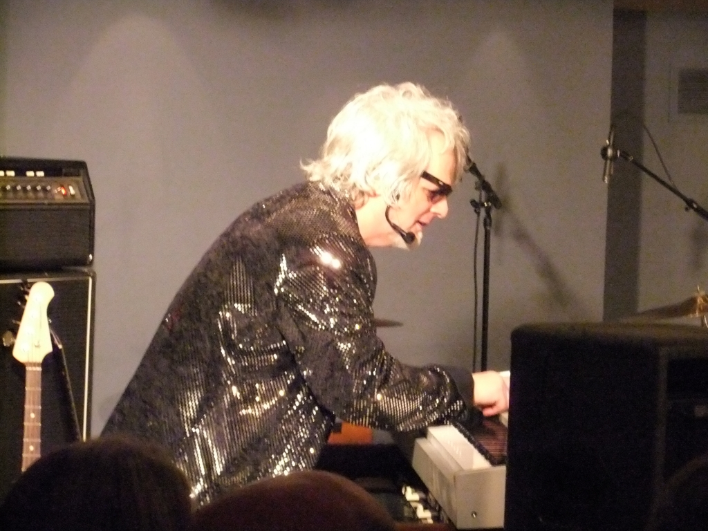 Al Kooper, who founded Blood, Sweat, and Tears and The Blues Project-also played on Bob Dylan albums(he played organ on "Like A Rolling Stone")-celebrated his 68th birthday at The Regatta Bar in Cambridge, Massachusetts on Feb. 4, 2012.